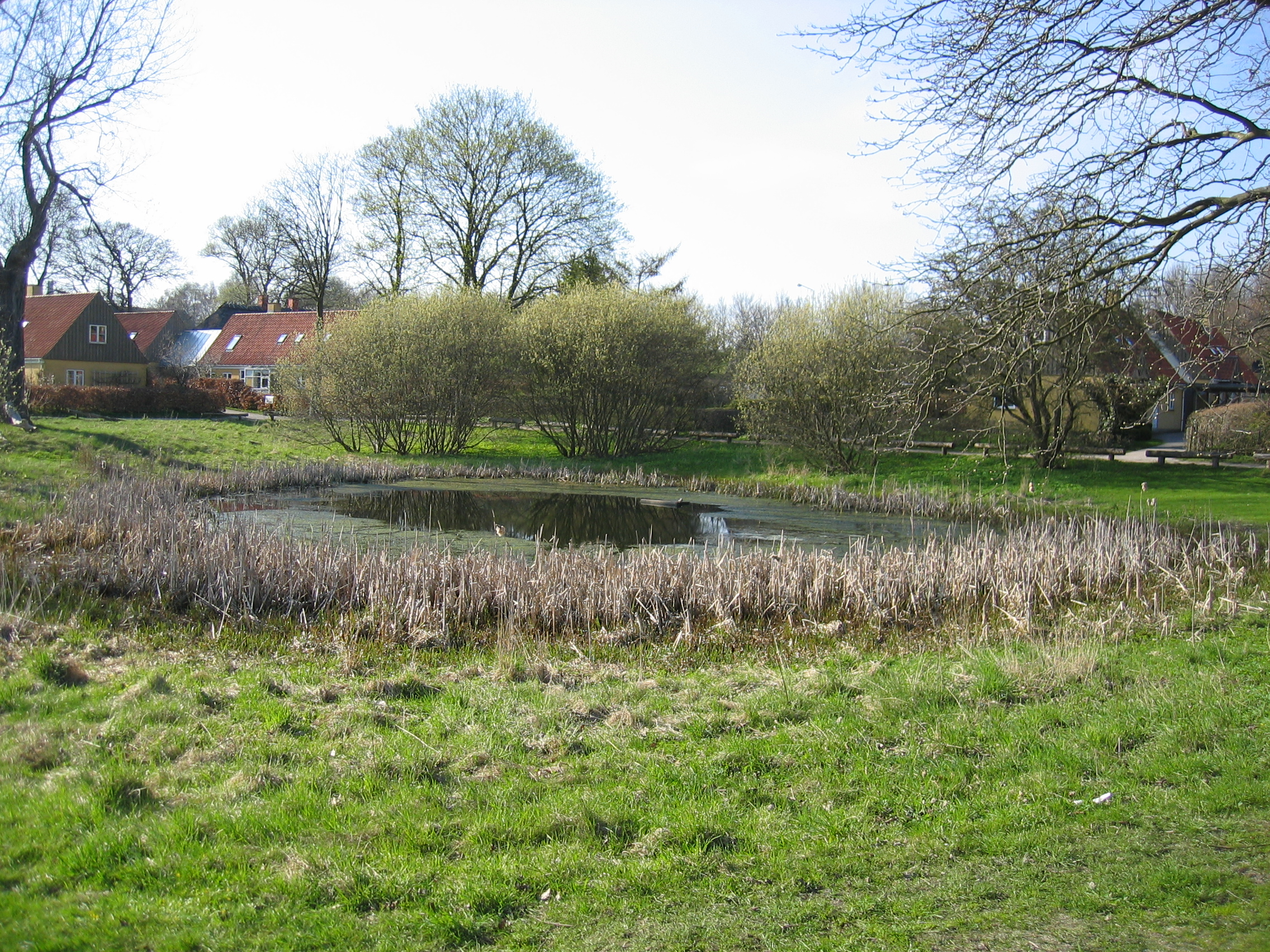 Lundtofte village pond, Lundtofte, Lyngby-Taarbæk municipality, Denmark